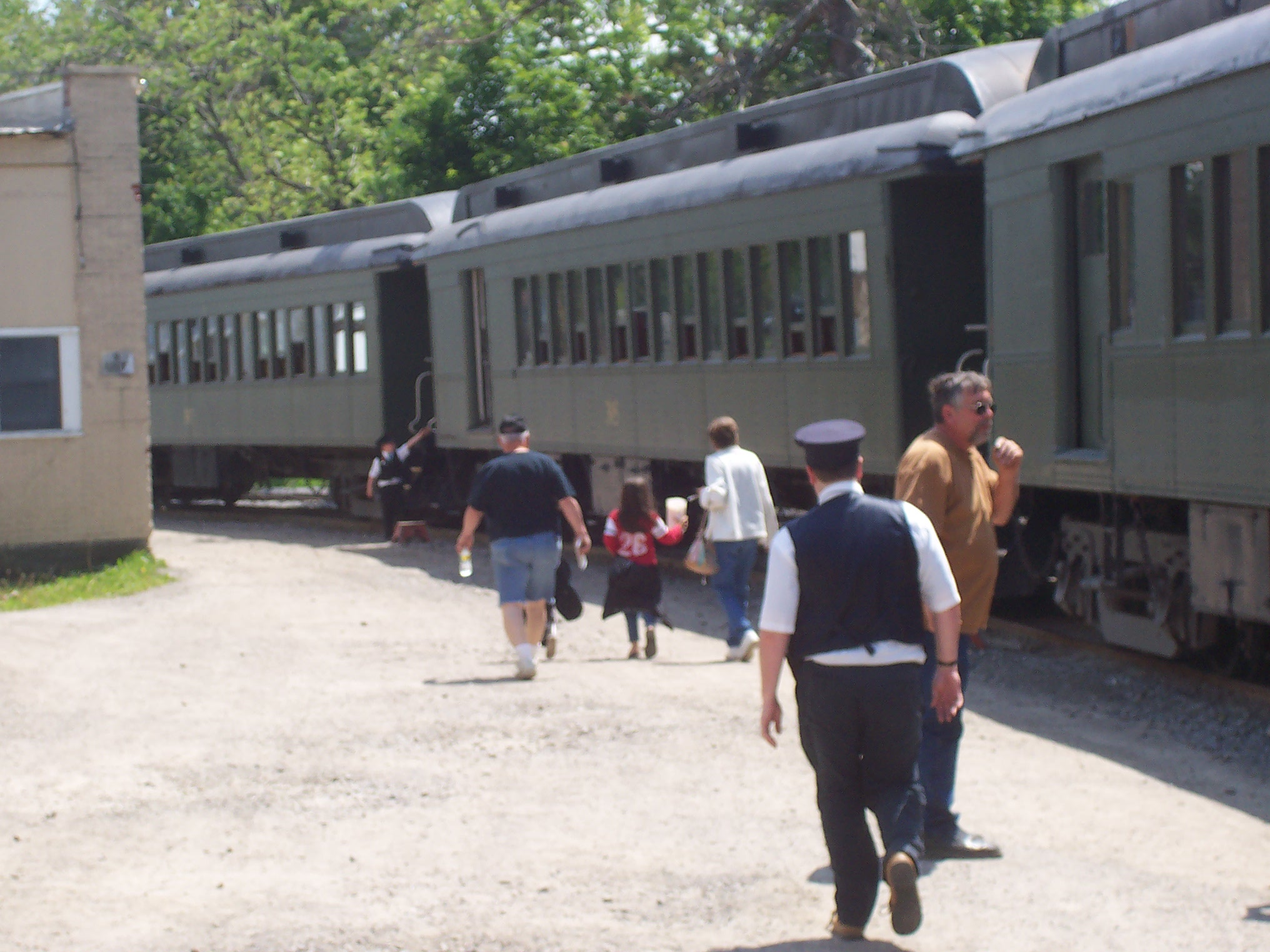 Exterior image of the passenger cars used on the Arcade and Attica Railroad steam locomotive excursion.